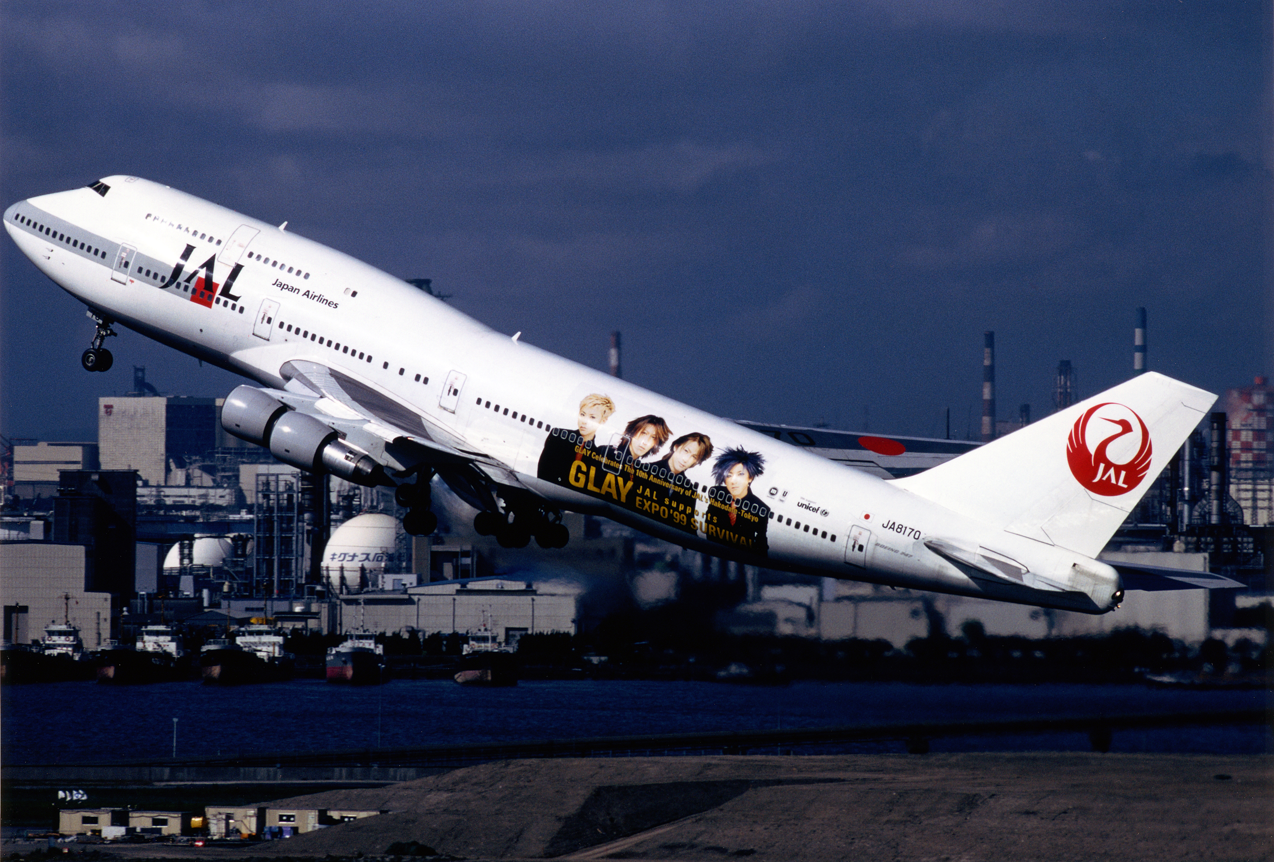 JAL GLAY JUMBO Boeing 747-100SUD JA8170 at Tokyo International Airport